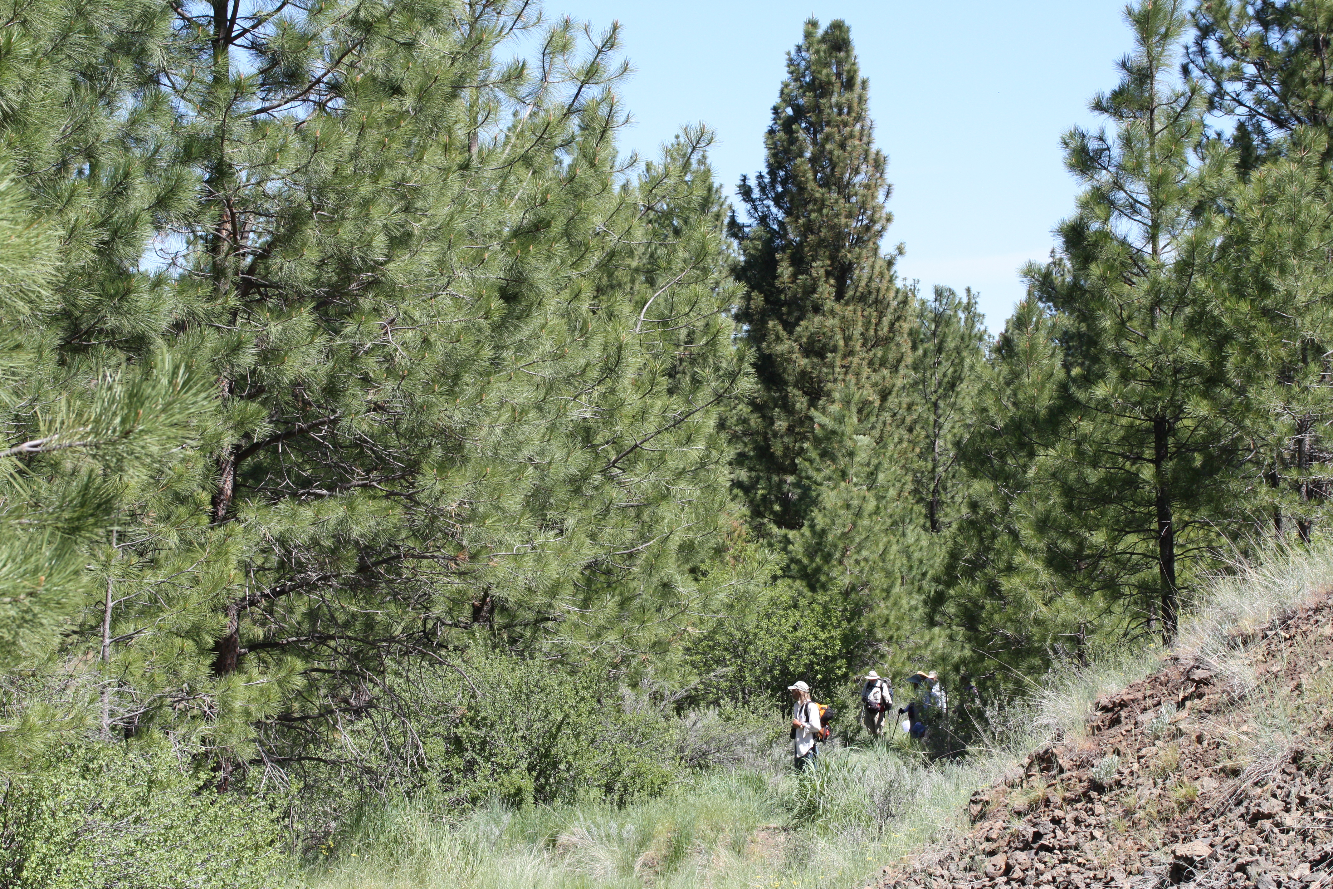 Ponderosa Pine, Western Yellow Pine, Blackjack or Bull Pine